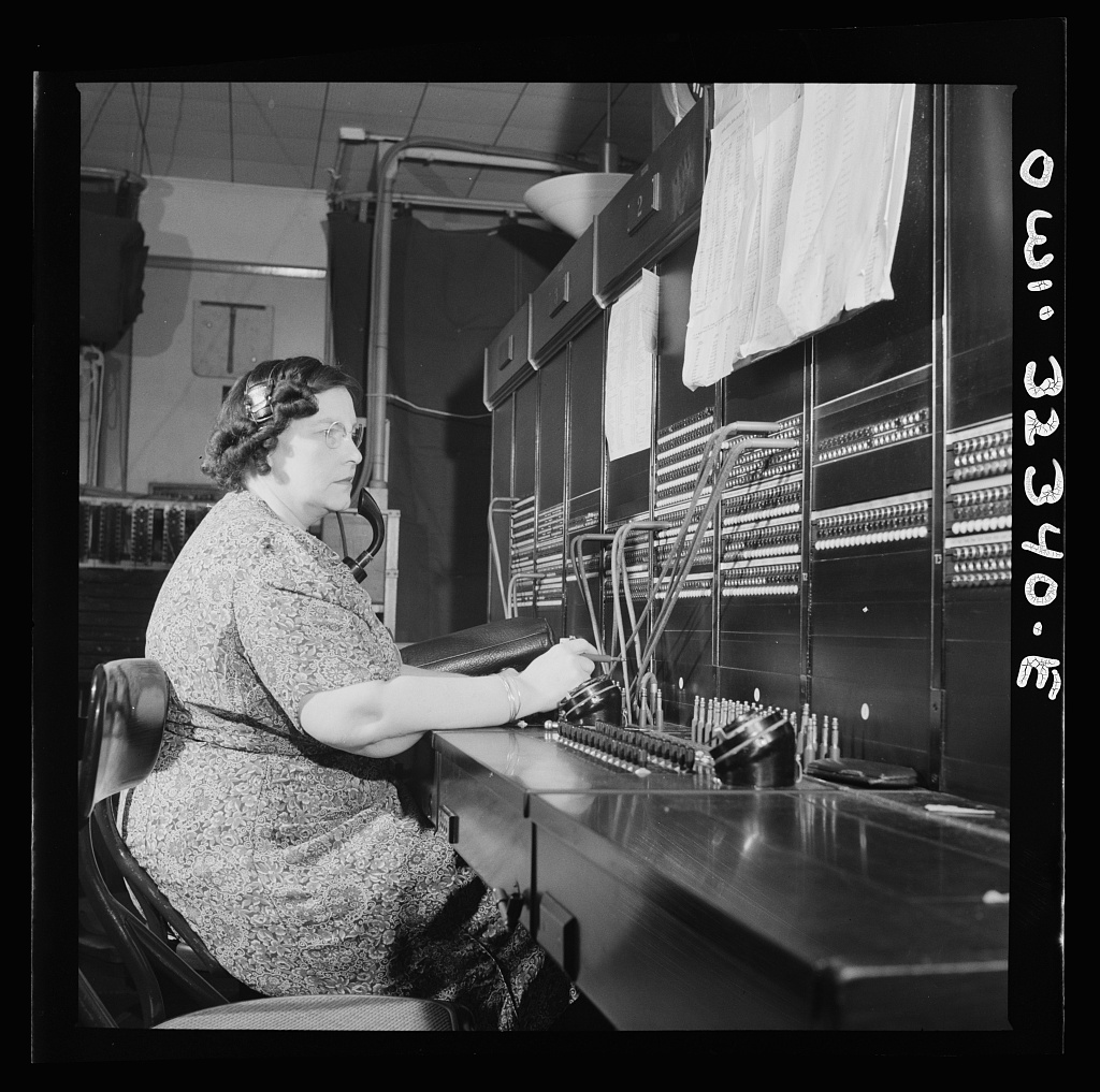 Washington, D.C. Miss Ethel Wakefield, a Western Union telegraph PBX operator